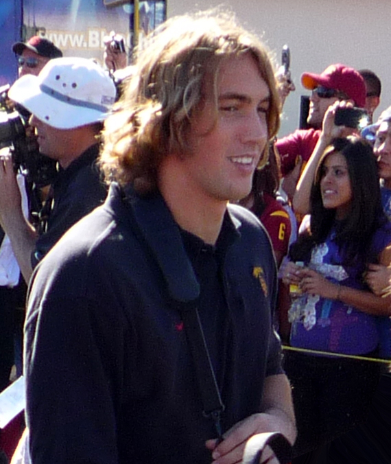 Tight end Jordan Cameron on the walk into the Rose Bowl before a USC victory over rival UCLA.